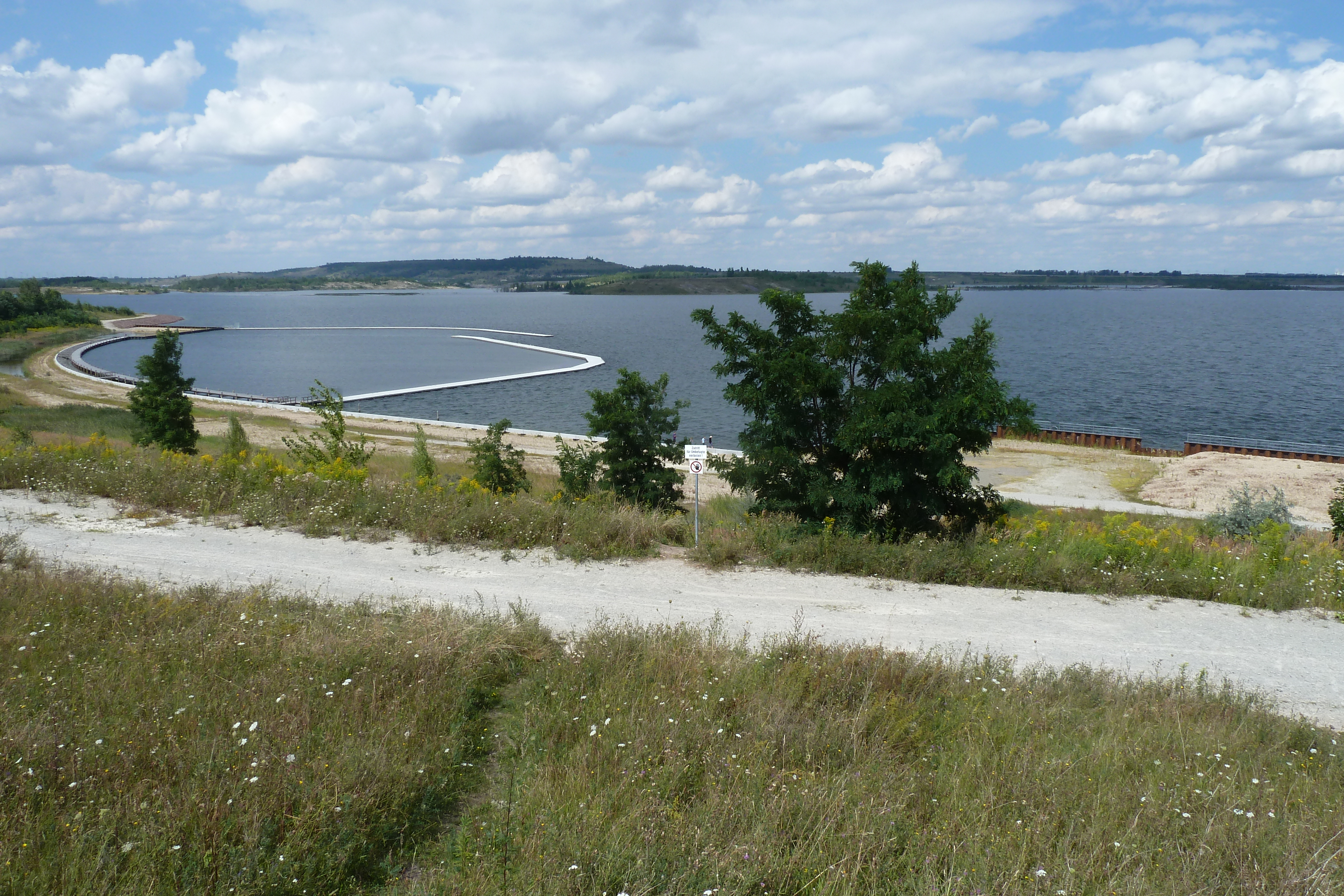 Geiseltalsee in Saxony-Anhalt, Germany, view from Braunsbedra-Neumark